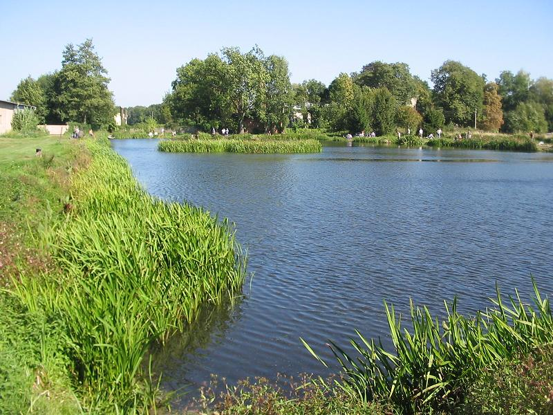 Fishponds at Werdermühle. The former watermill Werdermühle at the stream Plane is a part of the town Niemegk in the district Potsdam Mittelmark, state Brandenburg, Germany. The mill appertains to the natural preserve Naturpark Hoher Fläming